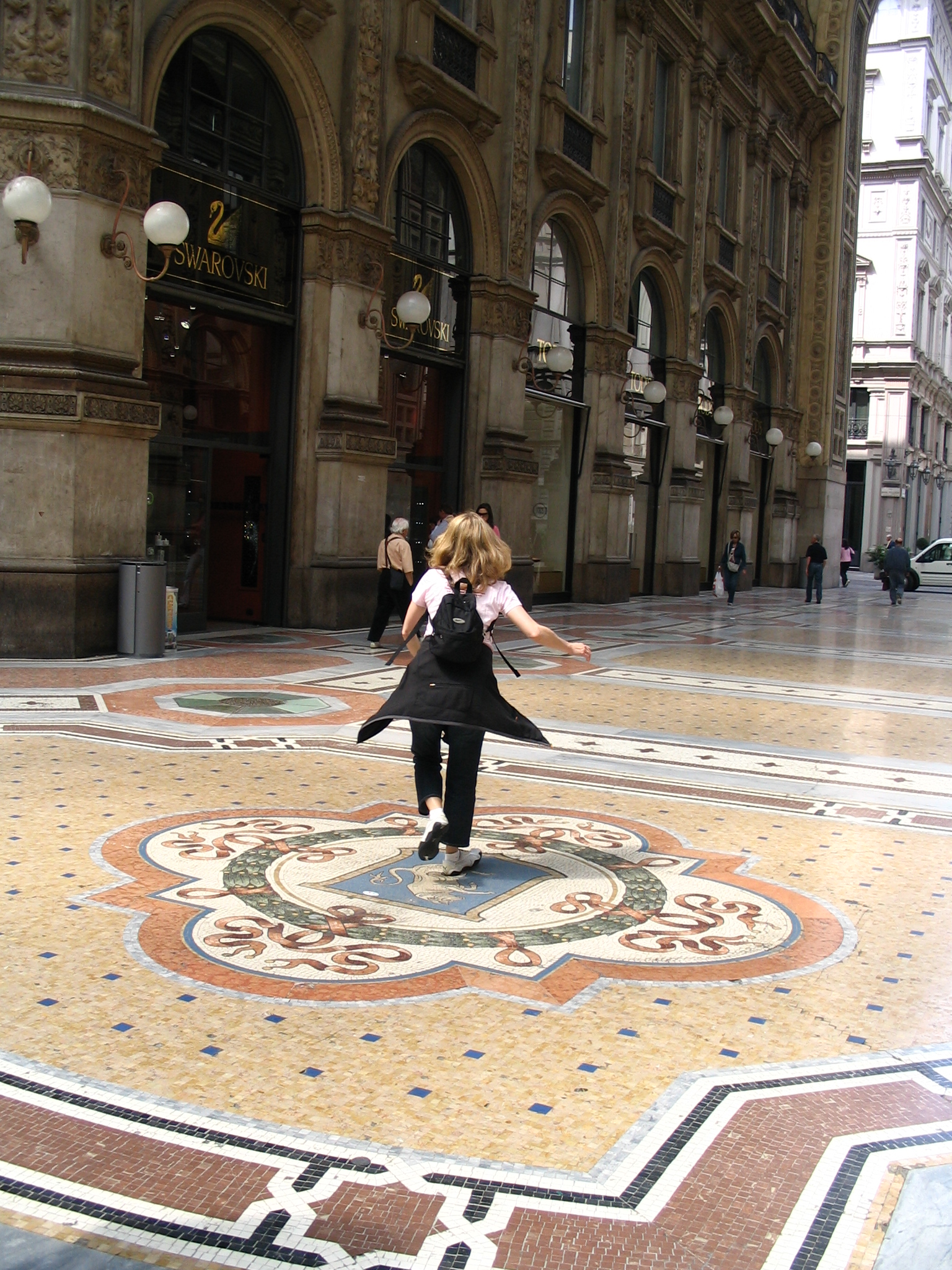 Detail from the mosaic floor in the Gallery Vittorio Emanuele II in Milan, Italy: the coats of arms of the four capitals of the Kingdom of Italy (actually three, as Milan has never been the capital). The first one: Turin. A girl is spinning over the bull's balls: according to superstition this brings good luck.